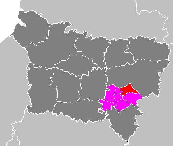 Maps of arrondissements and cantons of France: Arrondissement de Soissons - Canton de Vailly-sur-Aisne.PNG